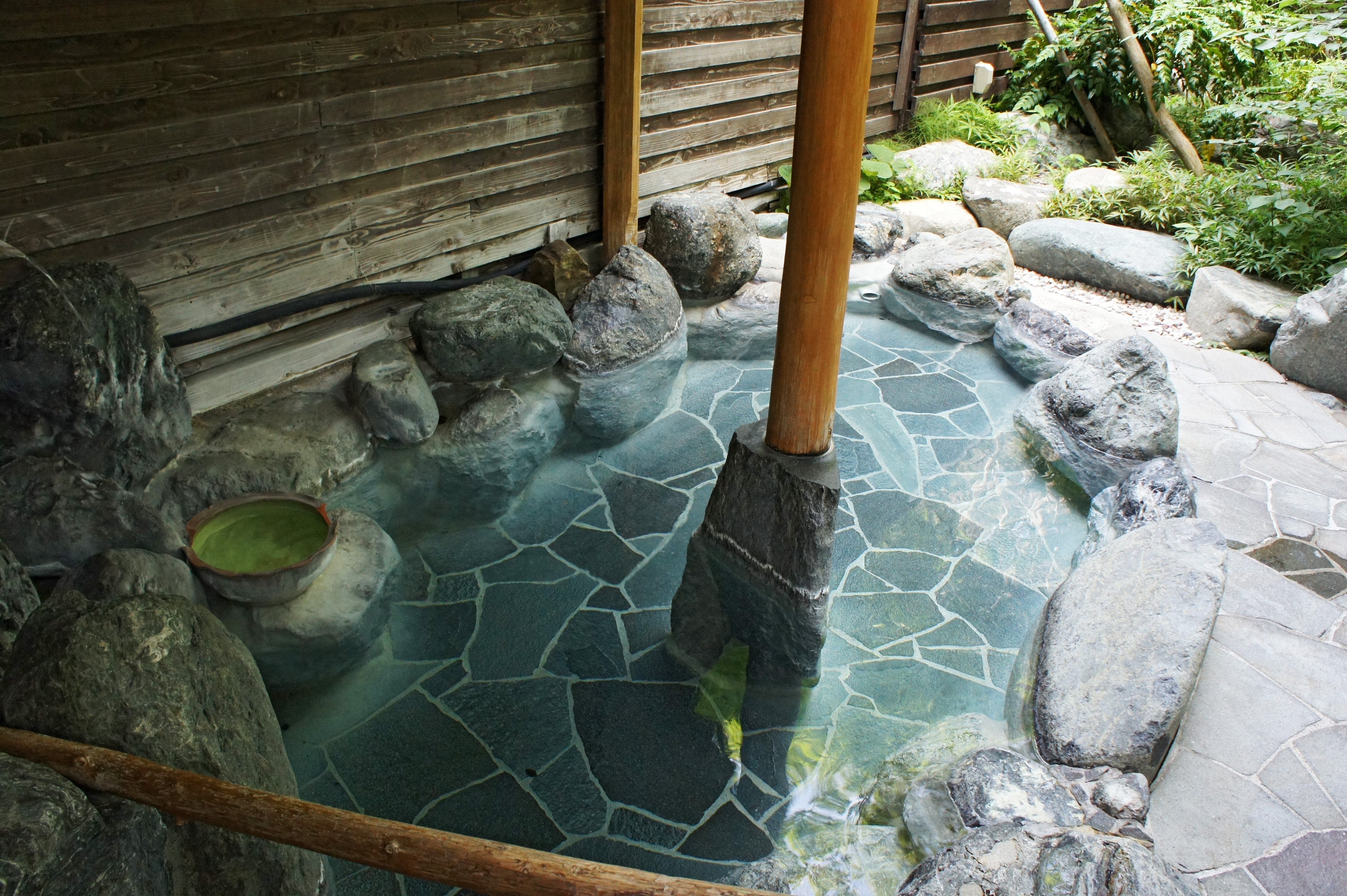 Hakuba Mominoki Hotel in Hakuba, Nagano prefecture, Japan.